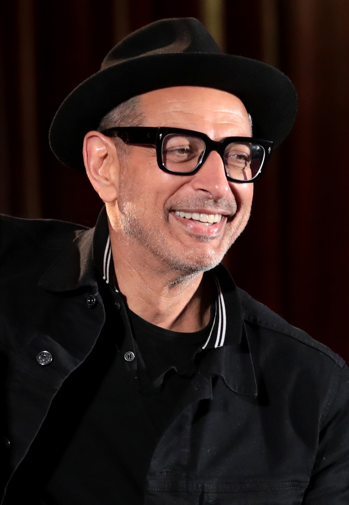 Jeff Goldblum speaking at the 2019 Phoenix Fan Fusion in Phoenix, Arizona.